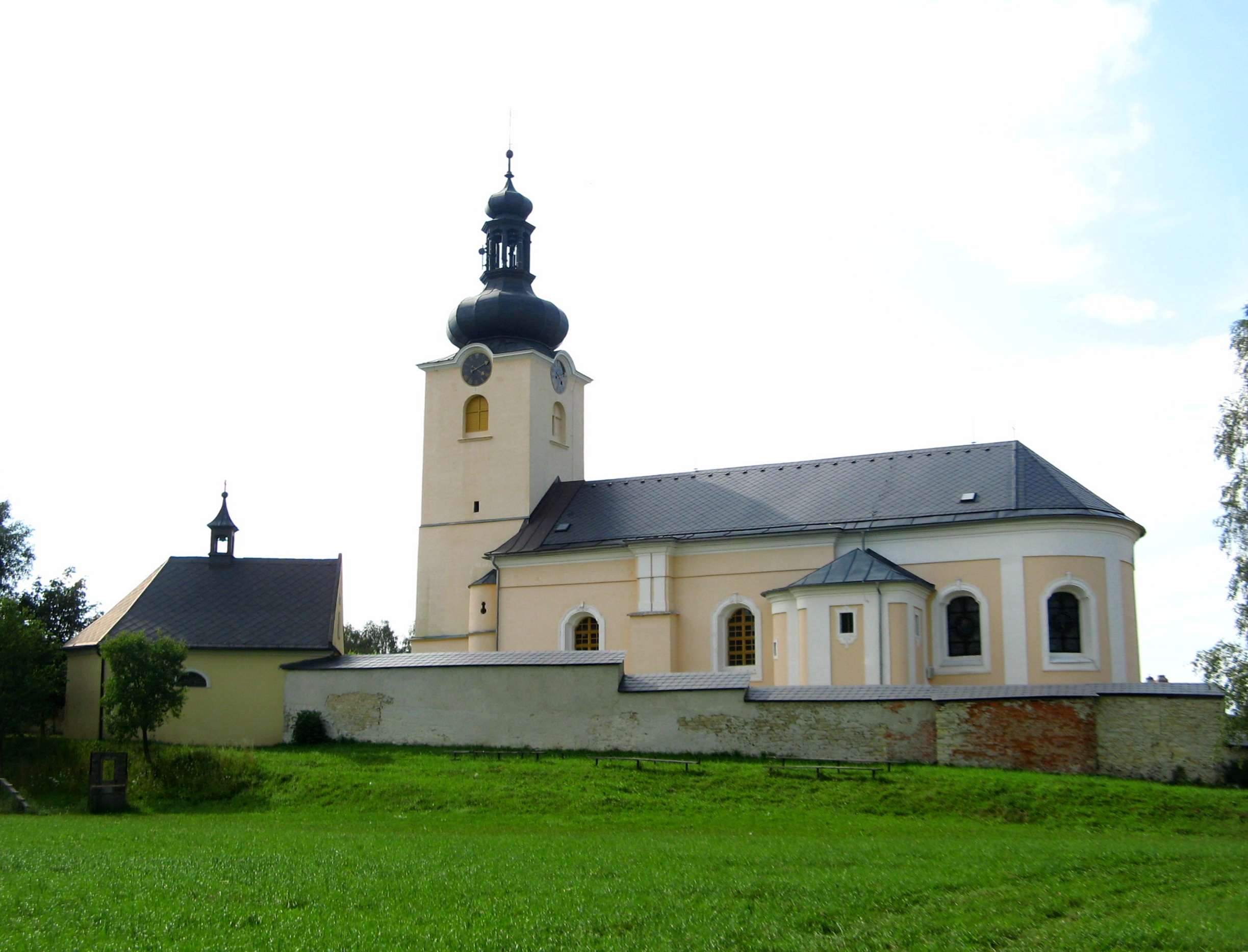 Church of Saint James the Greater and Saint Philomena, Koclířov, Czech republic